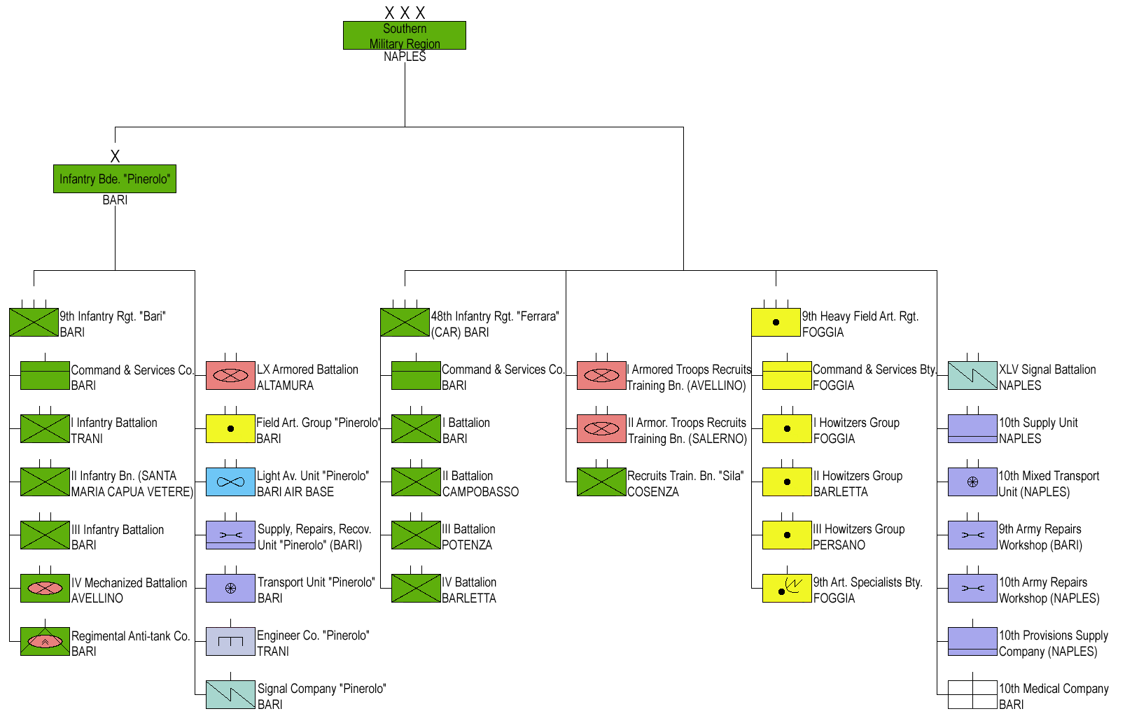 Structure of the Italian Army's Southern Military Region in 1974